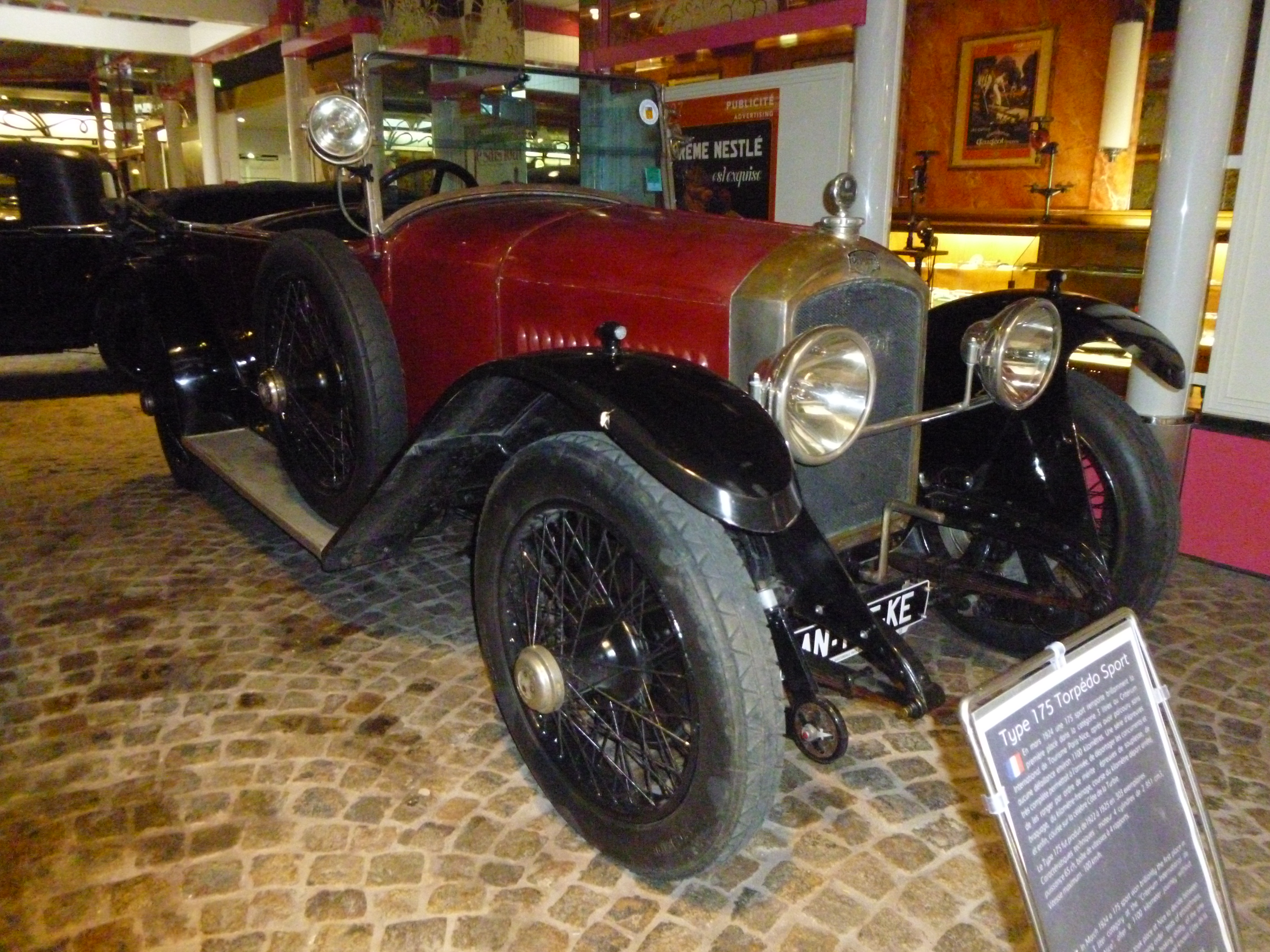 Peugeot type 175